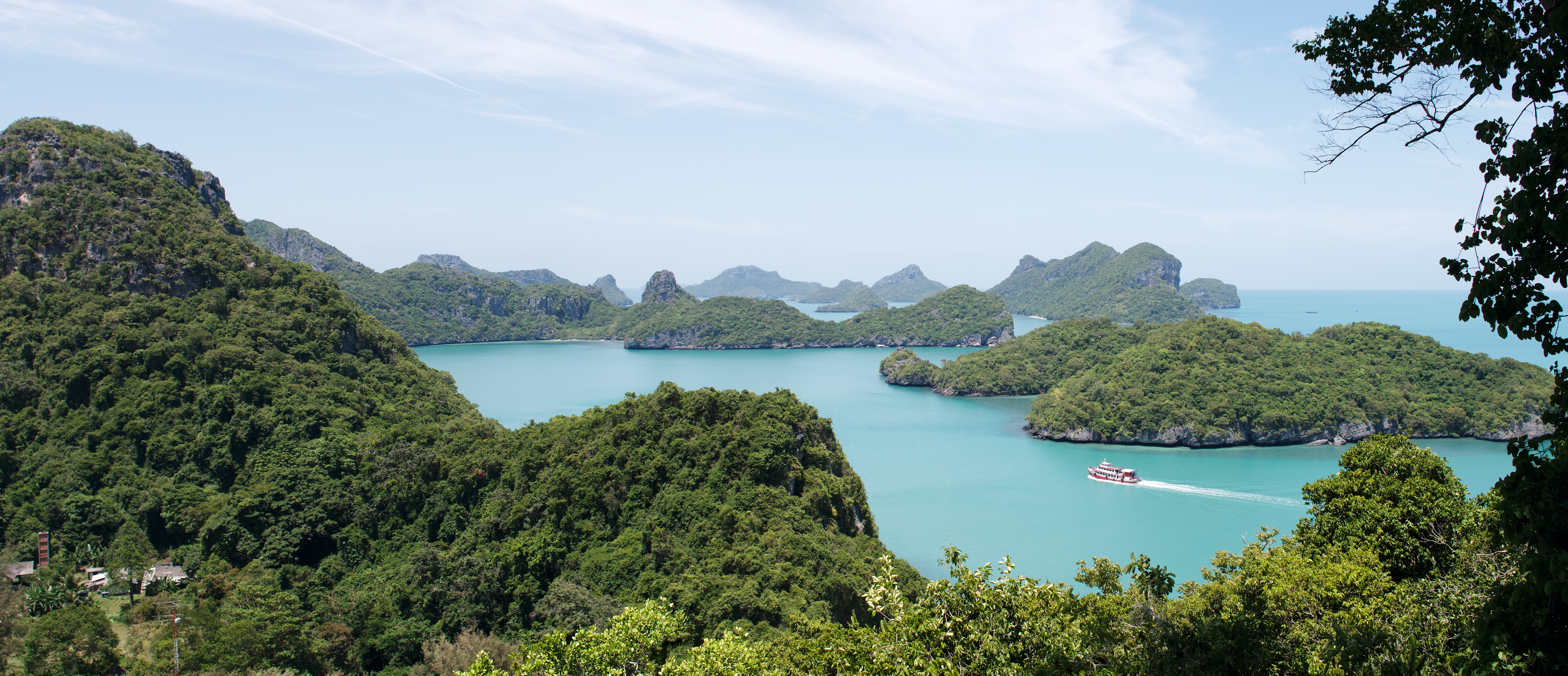 Panoramic view on Mu Ko Ang Thong National Park from Ko Wua Ta Lap island